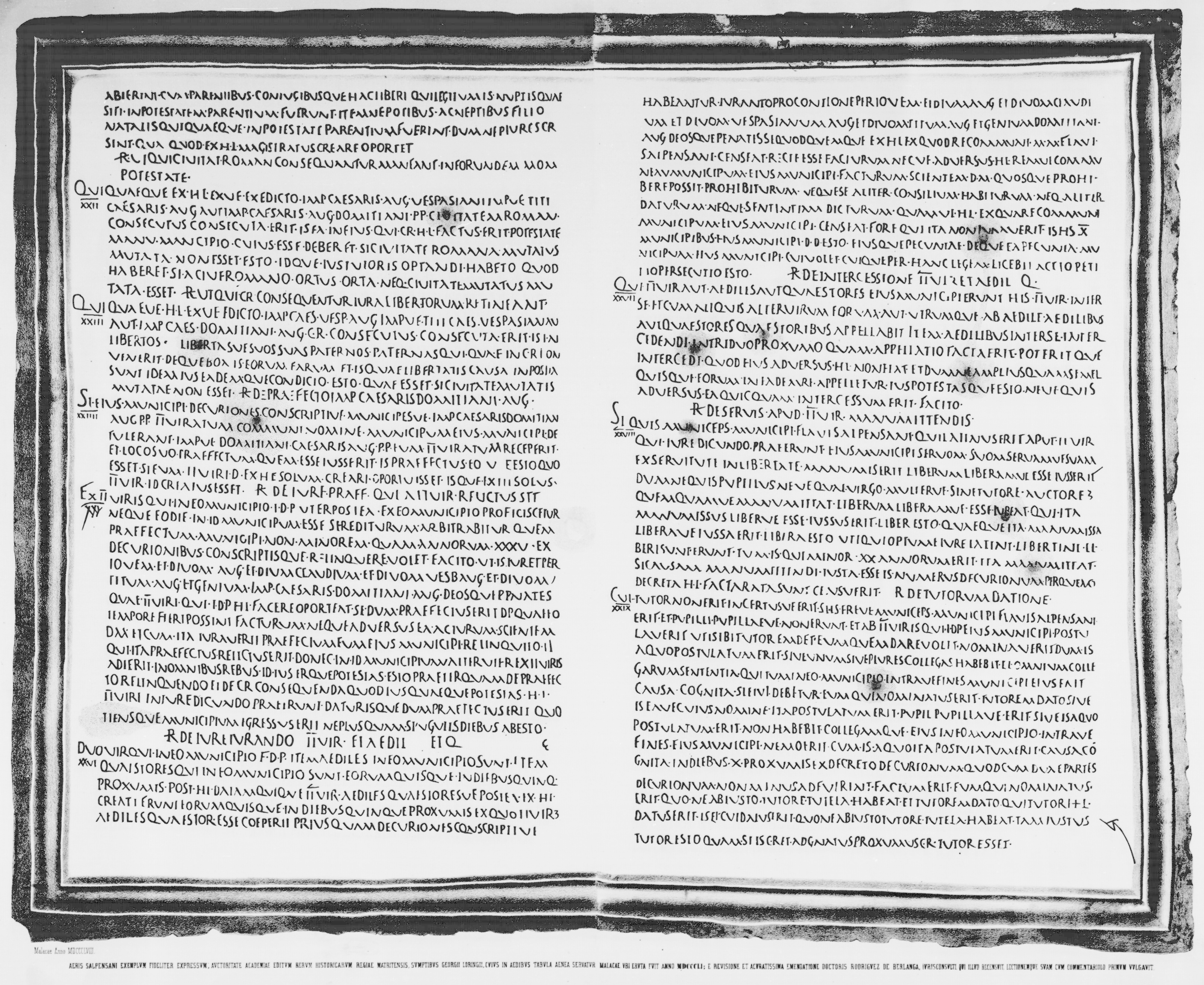 Reproduction of the law text of "Lex Salpensana"